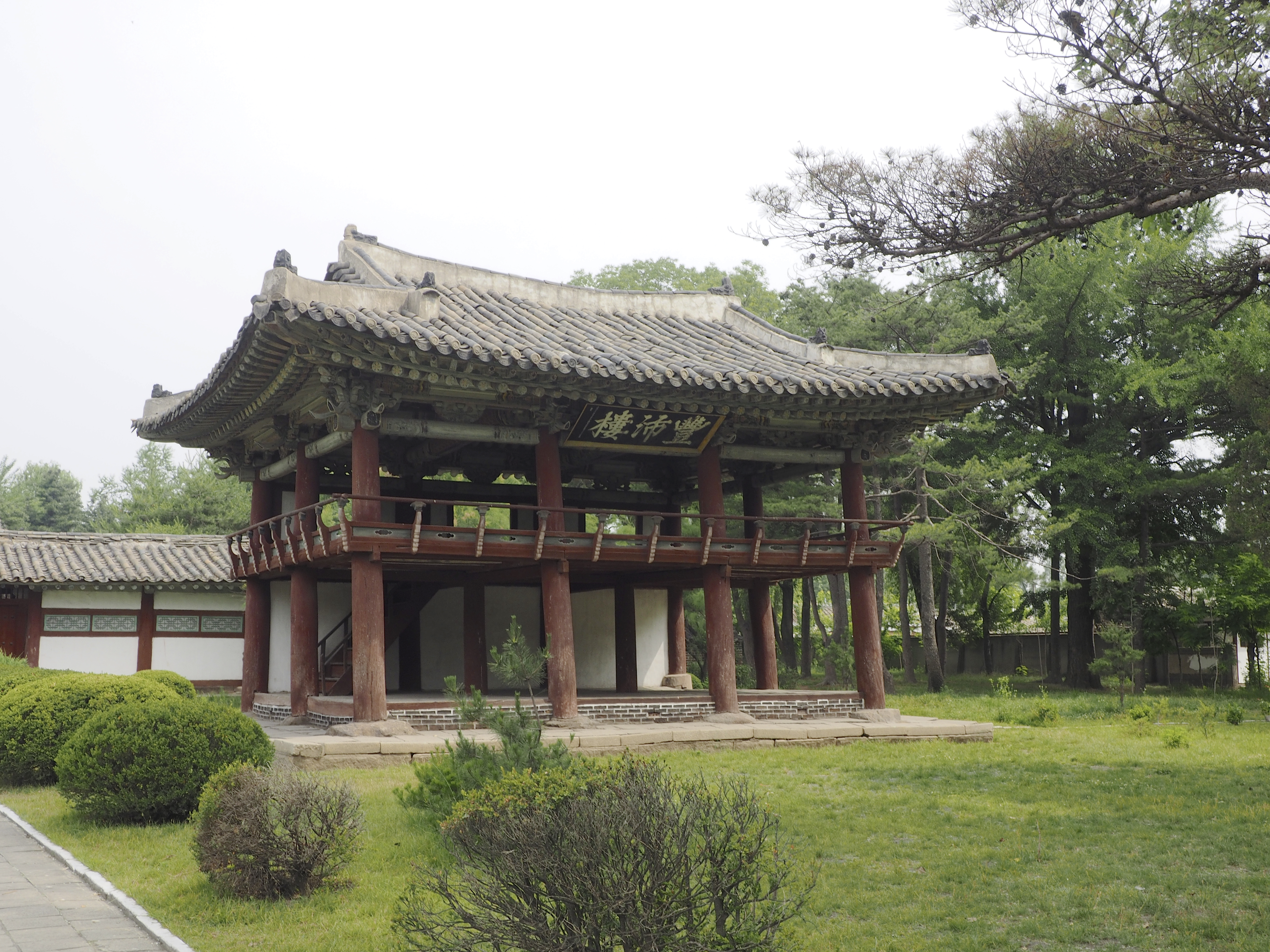 Home of Ri Song Gye - Hamhung